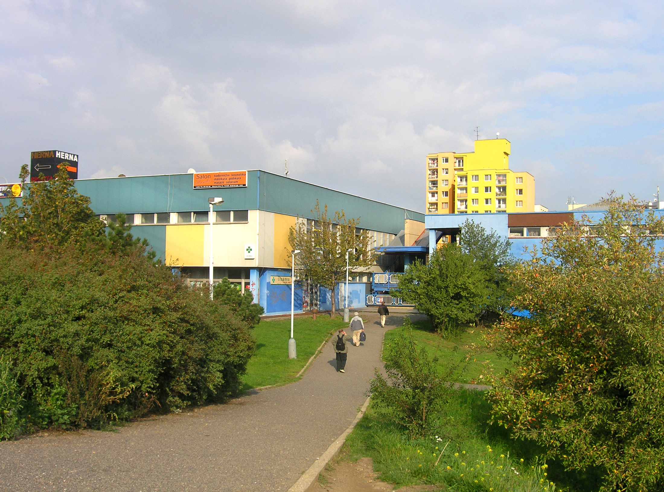 Sparta shopping centre beside Cíglerova street in Černý Most, Prague